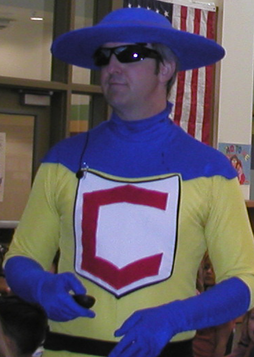 Captain Cutaneum teaches about skin cancer and how it can be avoided to a group of students at an elementary school in Gilbert, Arizona